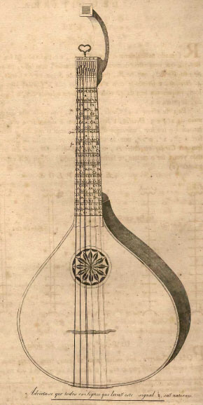 Portuguese guitar as printed in the handbook of 1796